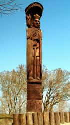 A stella to the Great Duke of Lithuania Vytautas This image was taken on Easter 2003 by me in Trakai. I grant all rights to use this image to the public. darius soften.REMOve.tHis.beFore.senDING.ktu.lt